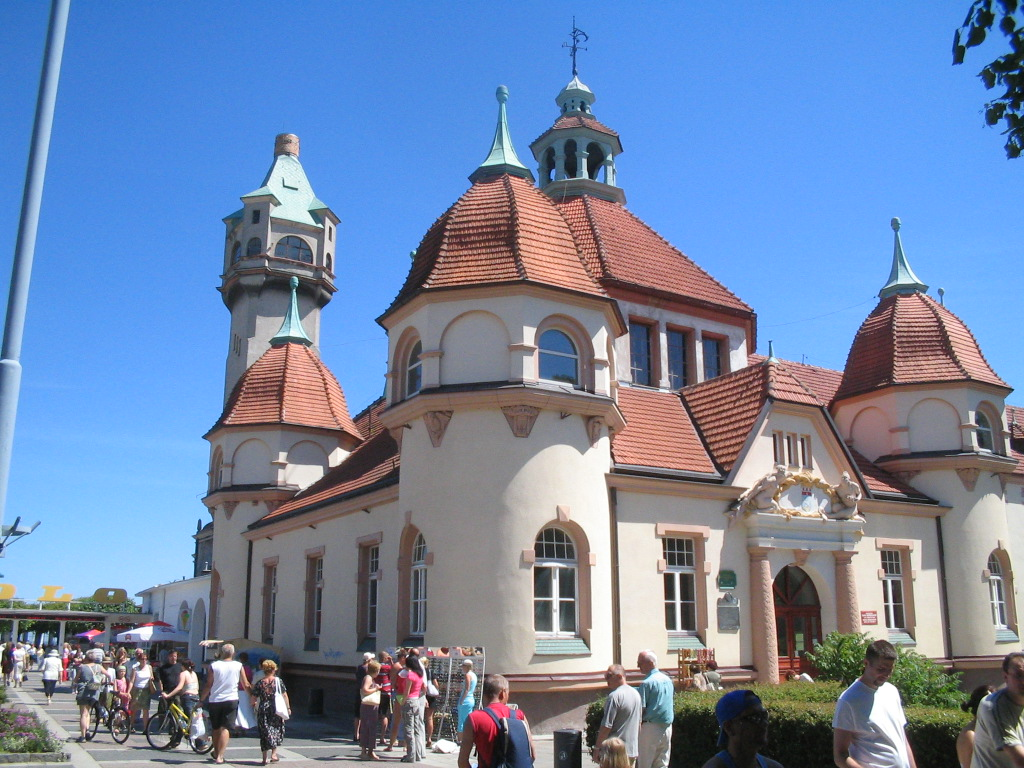 Old lighthouse building Sopot, july 2005, Poland